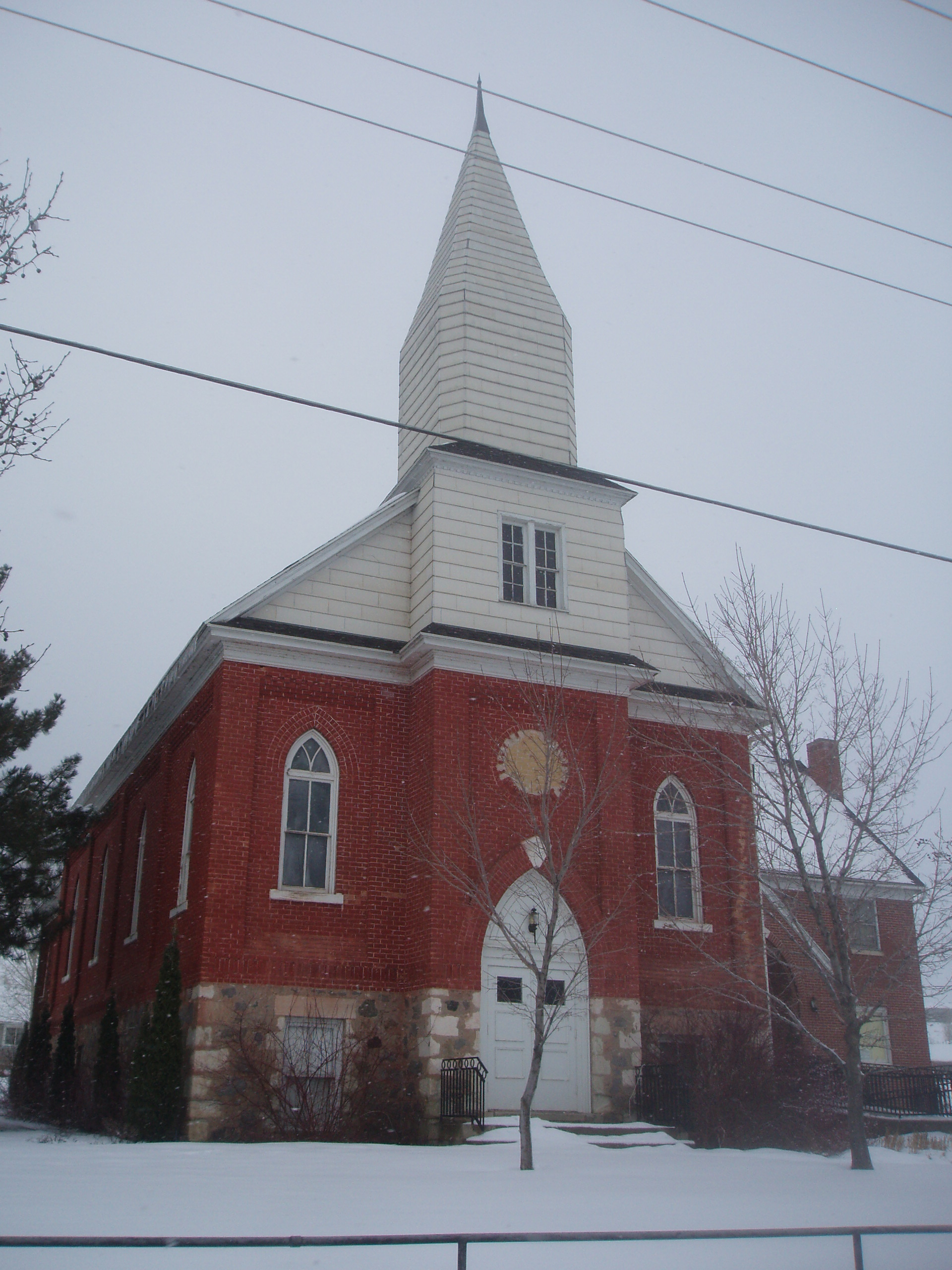 The Heritage Community Theatre, a landmark in the city of Perry, Utah, was formerly a meetinghouse of The Church of Jesus Christ of Latter-day Saints. Built in 1899, it was sold in 1975 to the theatrical company.